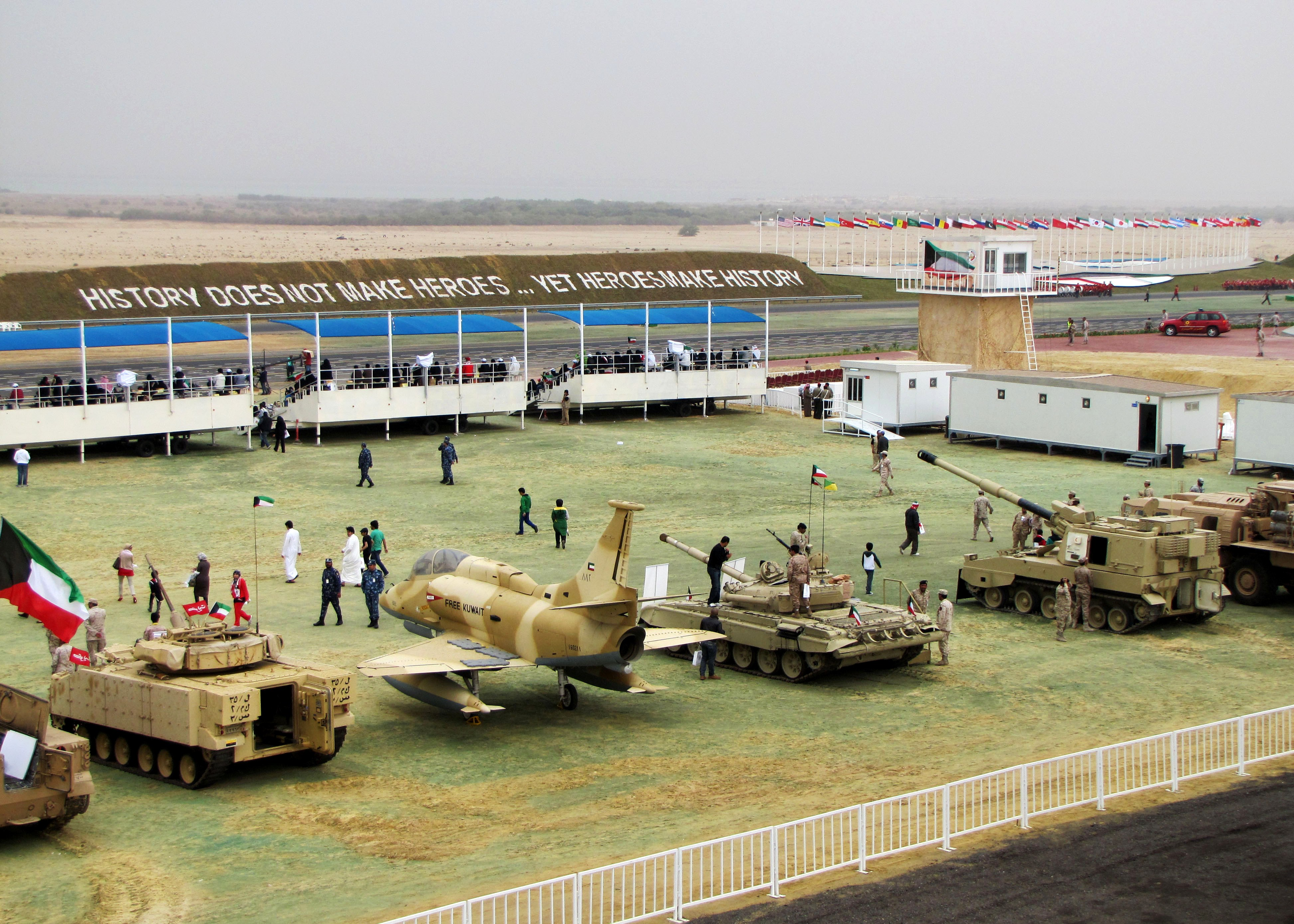 Kuwait celebrated their 50th year of independence from Great Britain and 20th year of liberation from Saddam Hussein’s invading forces with several coalition countries, including the U.S., by staging a very large military parade, Feb. 26. Numerous aircraft flew over the parade grounds to kick off the two-hour long parade, which included tanks, rocket launchers, multi-barrelled guns, and military formations of servicemembers from countries, such as Kuwait, the U.S., U.K., France, Saudi Arabia, Syria, and Qatar.